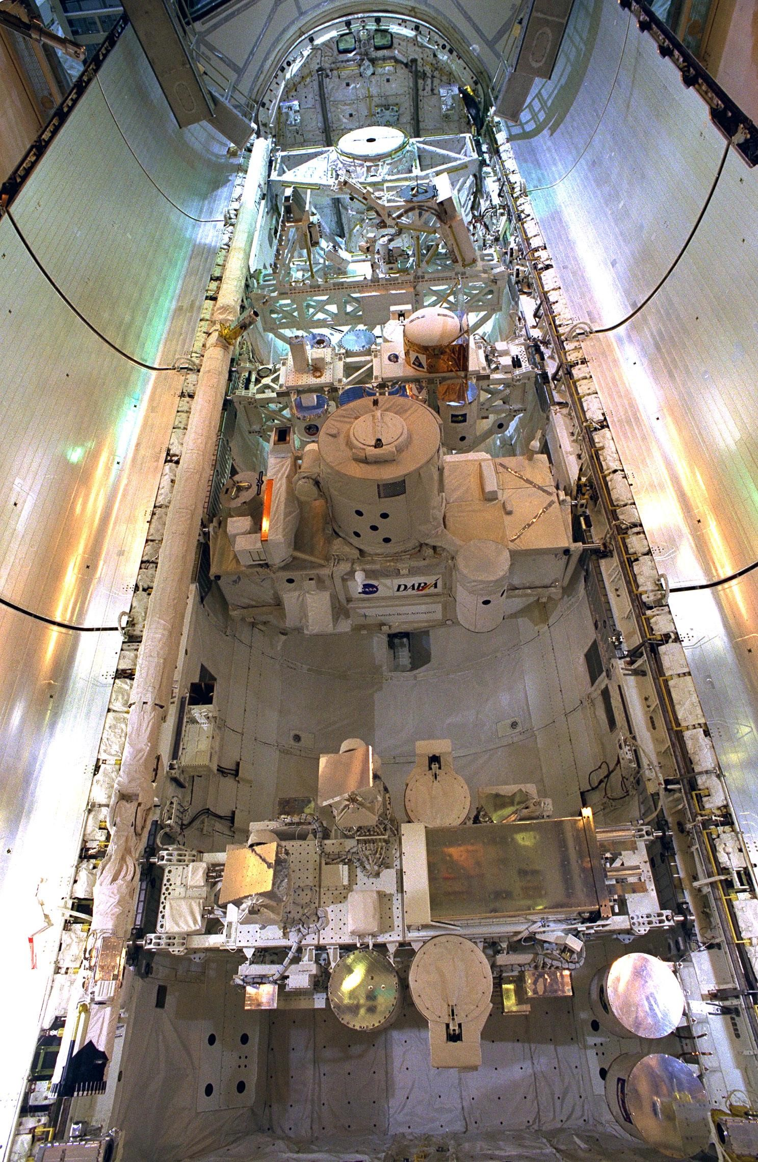 KENNEDY SPACE CENTER, FLA. -- The final tasks to prepare the Cryogenic Infrared Spectrometers and Telescopes for the Atmosphere-Shuttle Pallet Satellite-2 (CRISTA-SPAS-2) payload for the STS-85 mission are completed aboard Discovery at Launch Complex 39A. The CRISTA is a system of three telescopes and four spectrometers to measure infrared radiation emitted by the Earth’s middle atmosphere. During the 11-day mission, the CRISTA-SPAS-2 free-flying satellite will be deployed from Discovery and retrieved later in the flight. Also onboard the satellite will be the Middle Atmosphere High Resolution Spectrograph Investigation (MAHRSI) to measure ultraviolet radiation emitted and scattered by the Earth’s atmosphere.